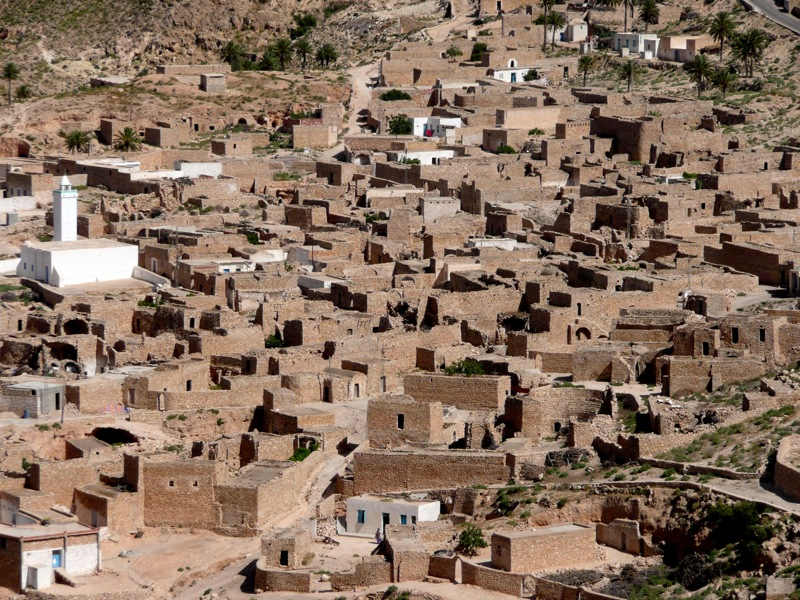 Toujane, a village in the south of Tunisia, near Médenine.